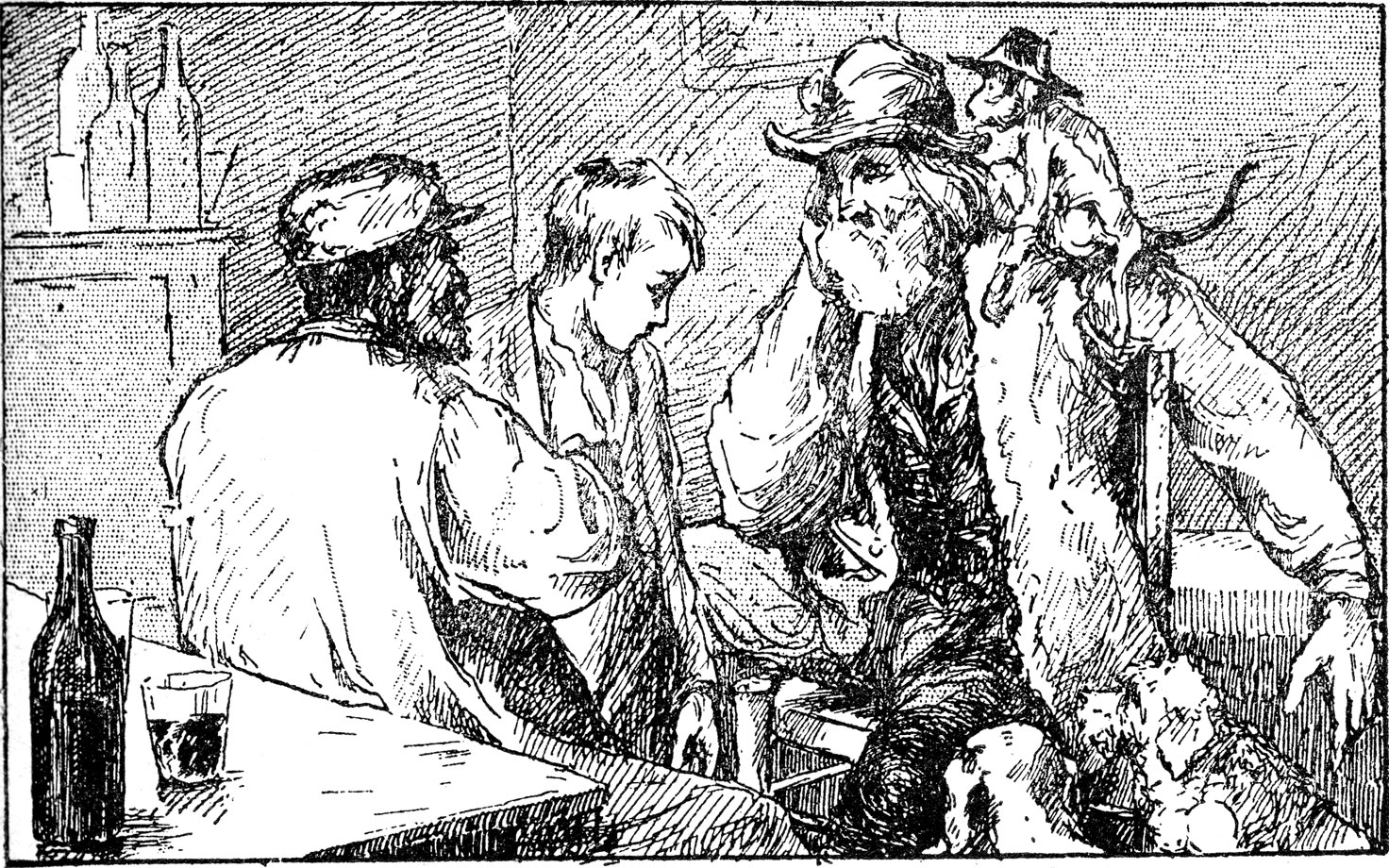 Title page from Nobody's Boy (1878) by Hector Malot (1830-1907)